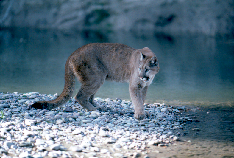 A Mountain Lon in Grand Teton National Park standing on cobbles next to a stream